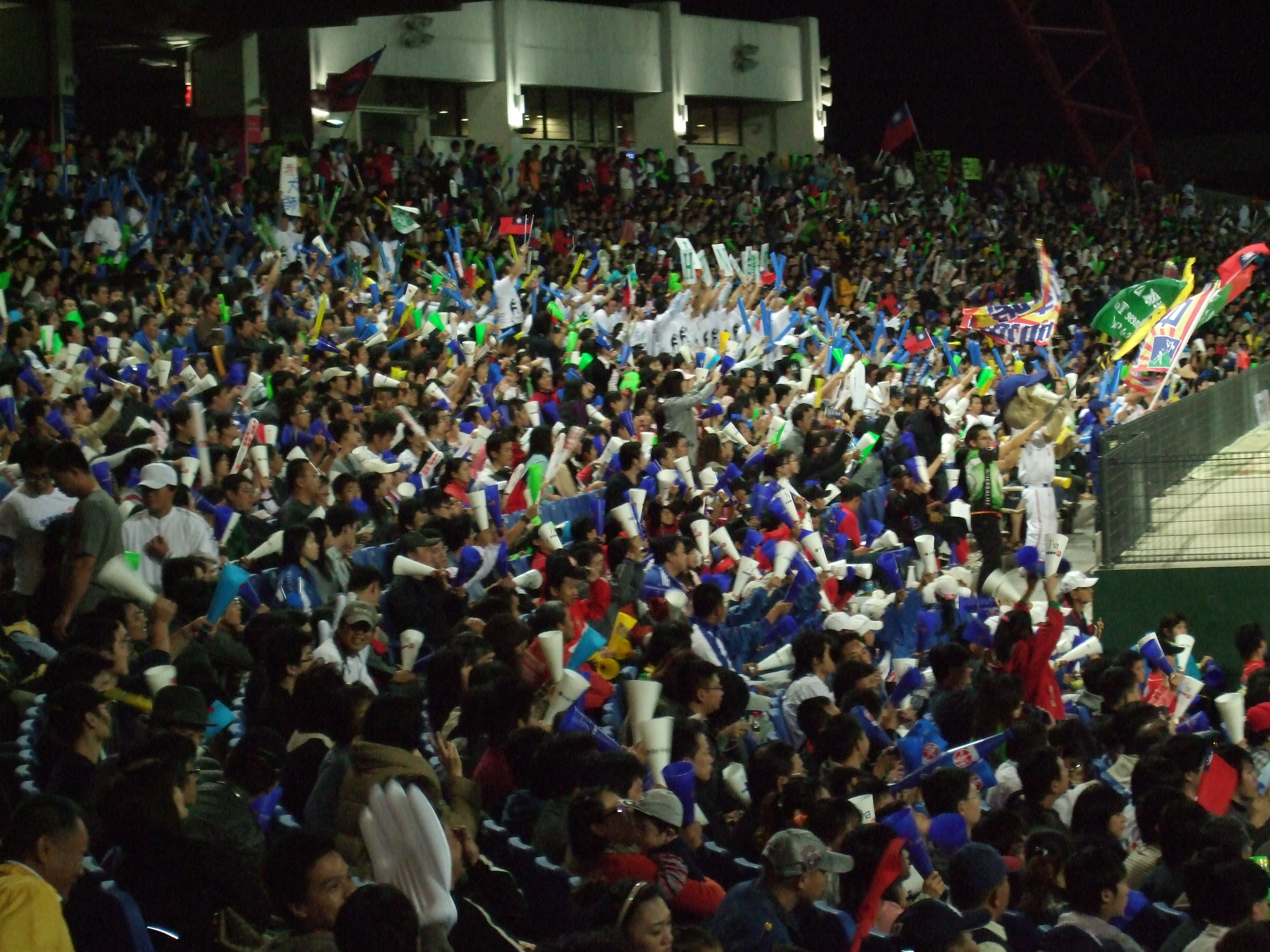 Taiwanese fans celebrate at the 2007 Baseball World Cup in Taiwan as Taiwan defeats Japan 6-1.